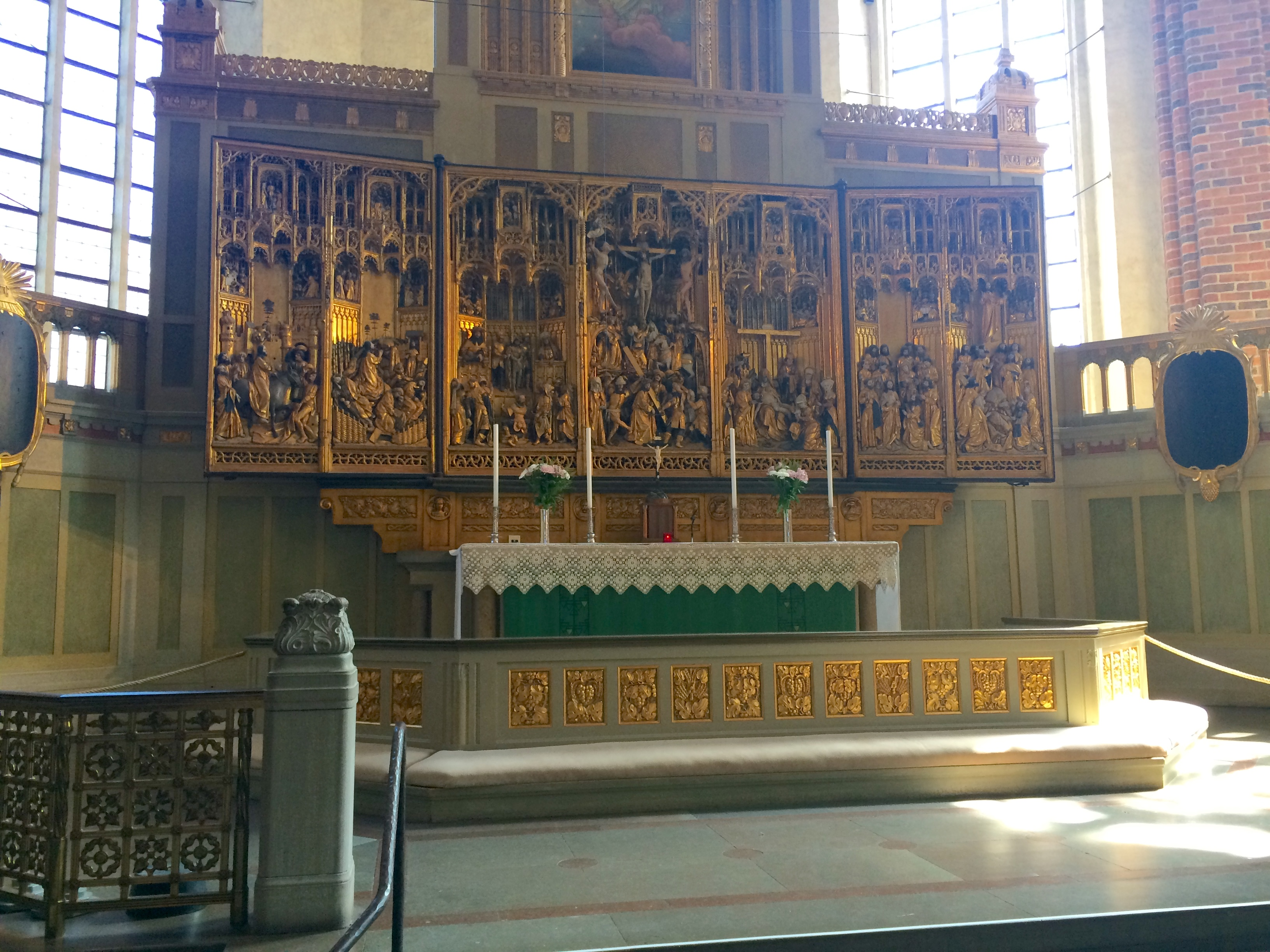 The high altar of Strängnäs Cathedral, Sweden, showing detail of the sanctuary, and the very large carved and gilded triptych reredos. The altar cabinet at the high altar from 1480-1490, with pictures from the gospel of Christmas and, when you opened the cabinet, the history of passion, made in Flanders and completed in 1490 in Brussels (in a workshop in Brussels). The cabinet is donated by Bishop Kort Rogge and is one of Sweden's largest altar cabinets. The ridge cabinet at the high altar of the cathedral is the largest and strangest of the church's medieval altar cabinets